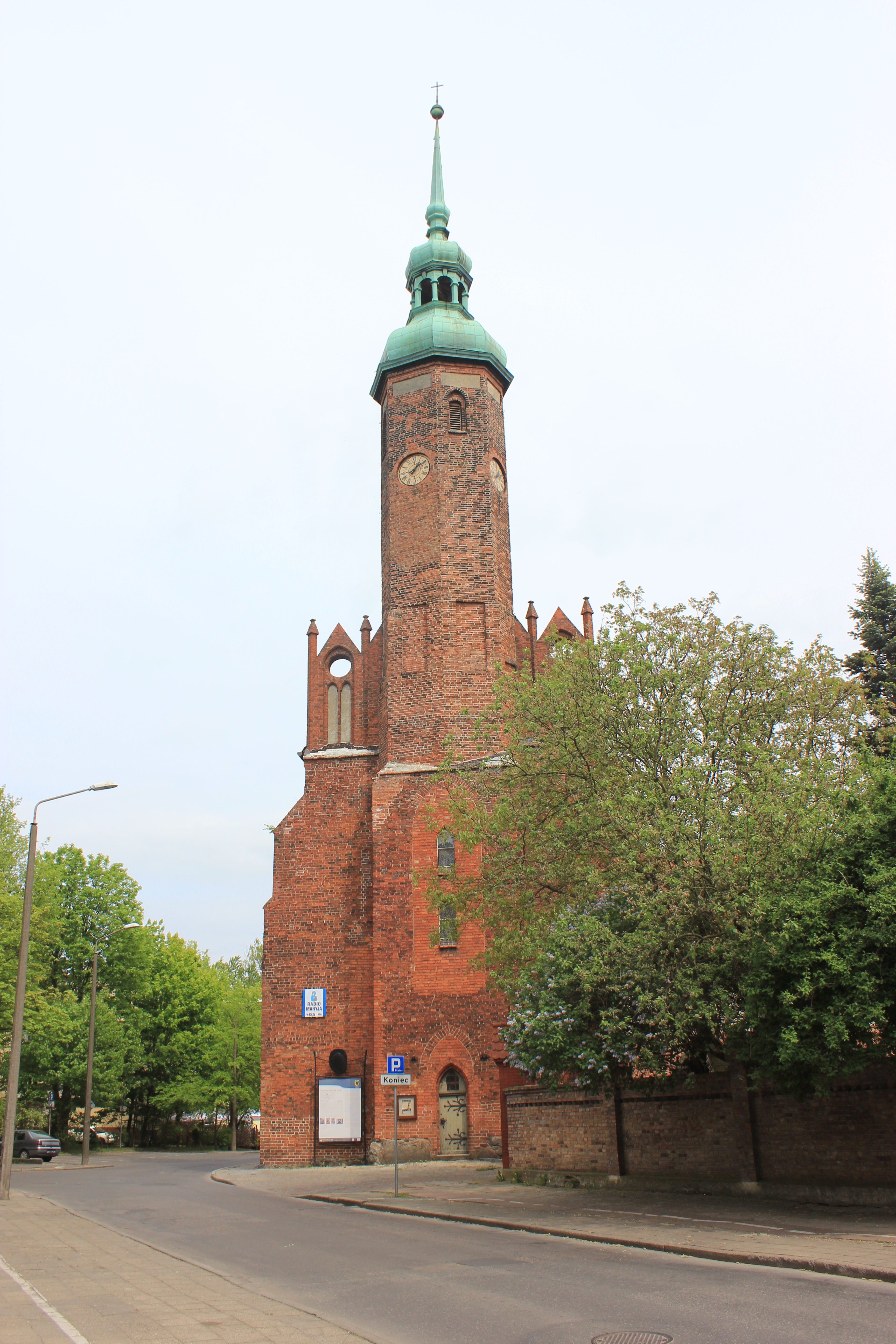 Słupsk - St. Hyacinth church